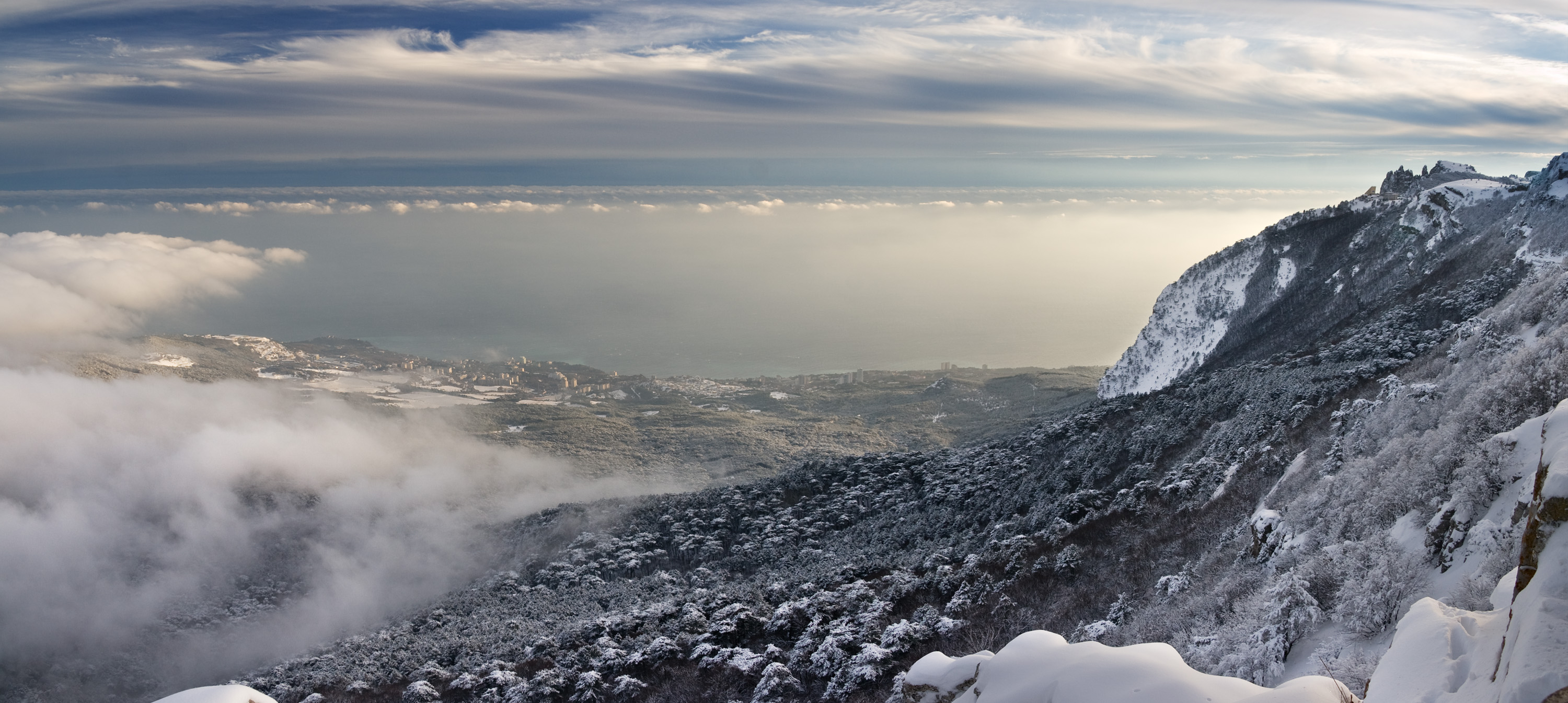 The view of Black Sea and Gaspra village from Mt. Ai-Petri, Crimea.